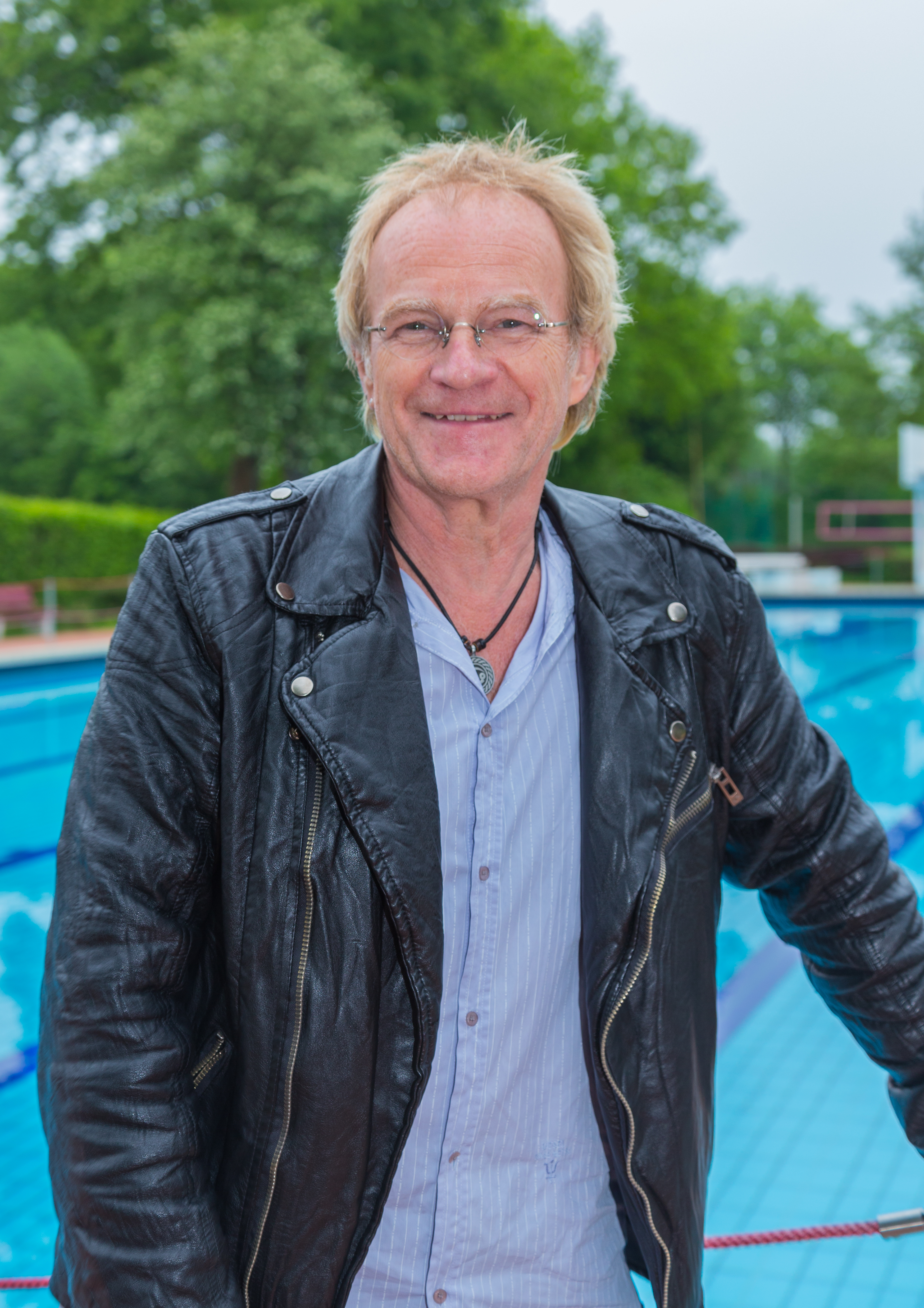 German bassist and record producer Martin Engelien at the Laggenbeck Lido (Freibad Laggenbeck) in Ibbenbüren-Laggenbeck, Kreis Steinfurt, North Rhine-Westphalia, Germany. Picture taken on the occasion of the „Go Music 20th Anniversary Jubilee Tour“.